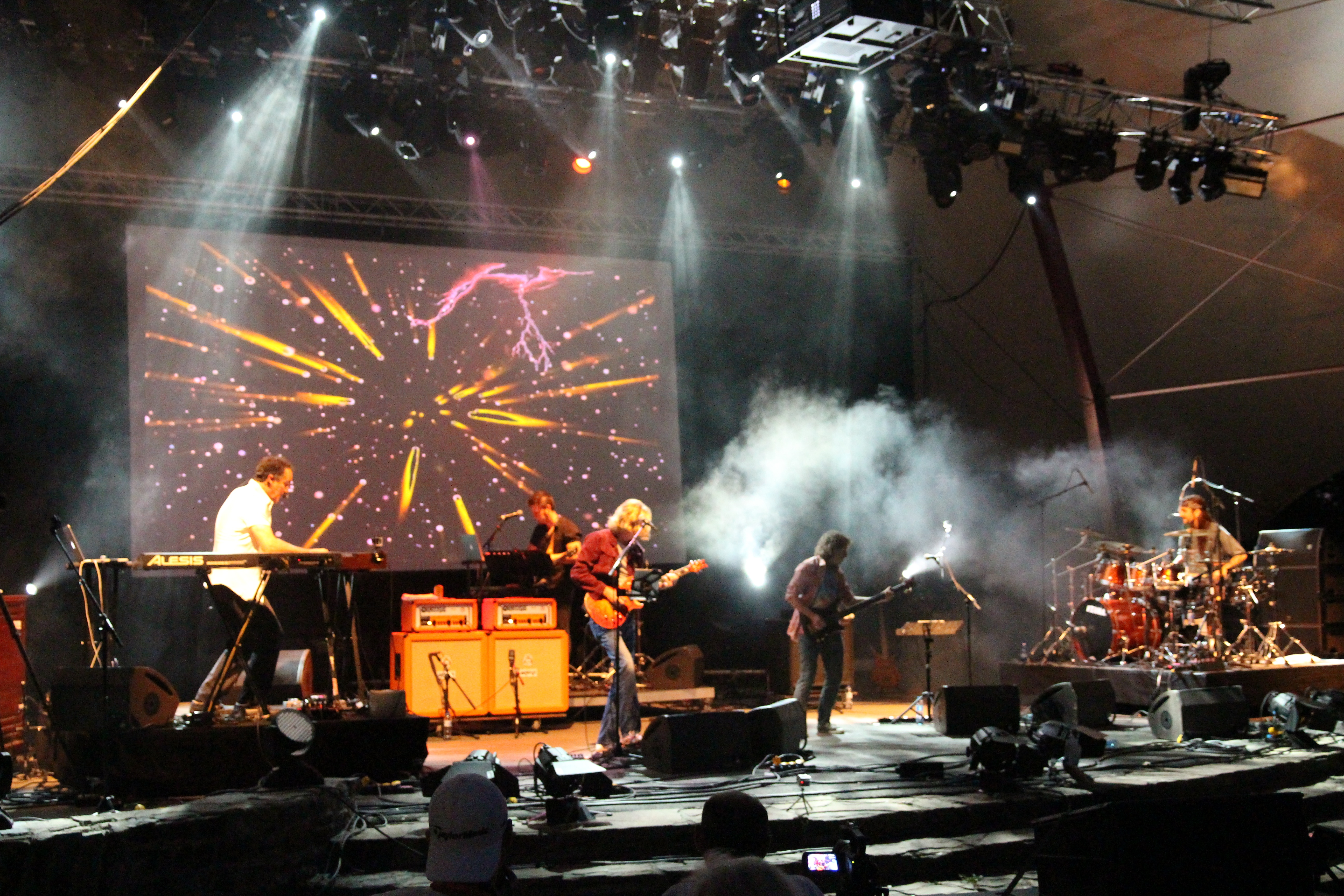 Transatlantic au Night of the Prog Festival, 18 juillet 2014